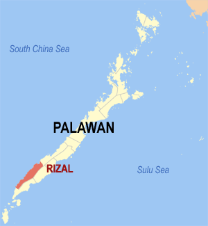 Map of Palawan showing the location of Rizal